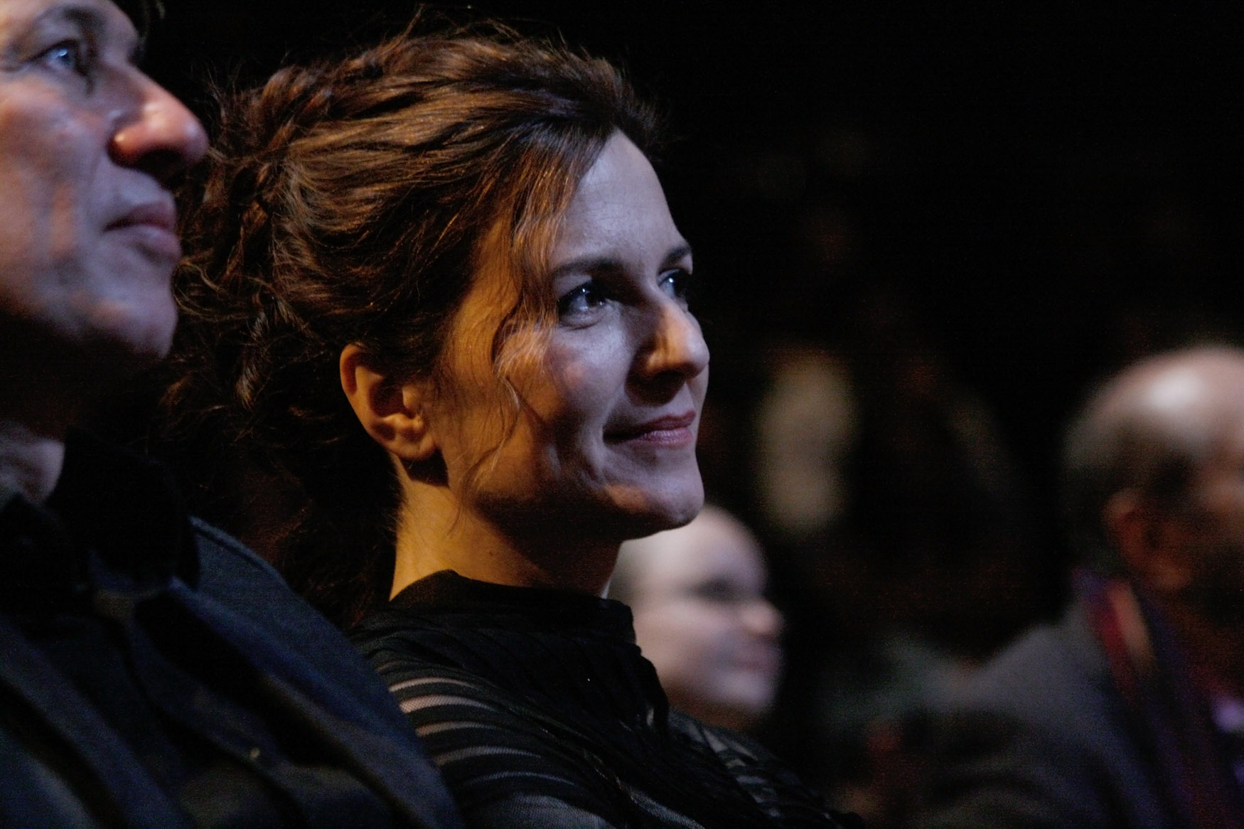 Martina Gedeck and Tobias Moretti at the Austrian Film Awards 2011 at the Odeon theater in Vienna.